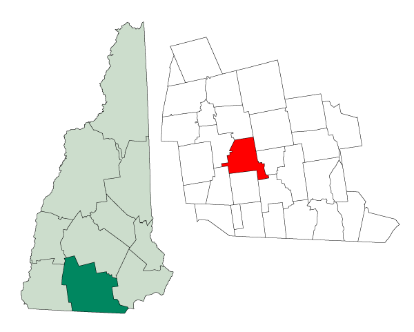 Map of a municipality in Hillsborough County, New Hampshire